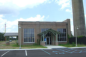 Brookhaven New Station: On August 17, 2011, the city dedicated its new intermodal Godbold Transportation Center. The new facility serves Amtrak, local transit, and taxi service.